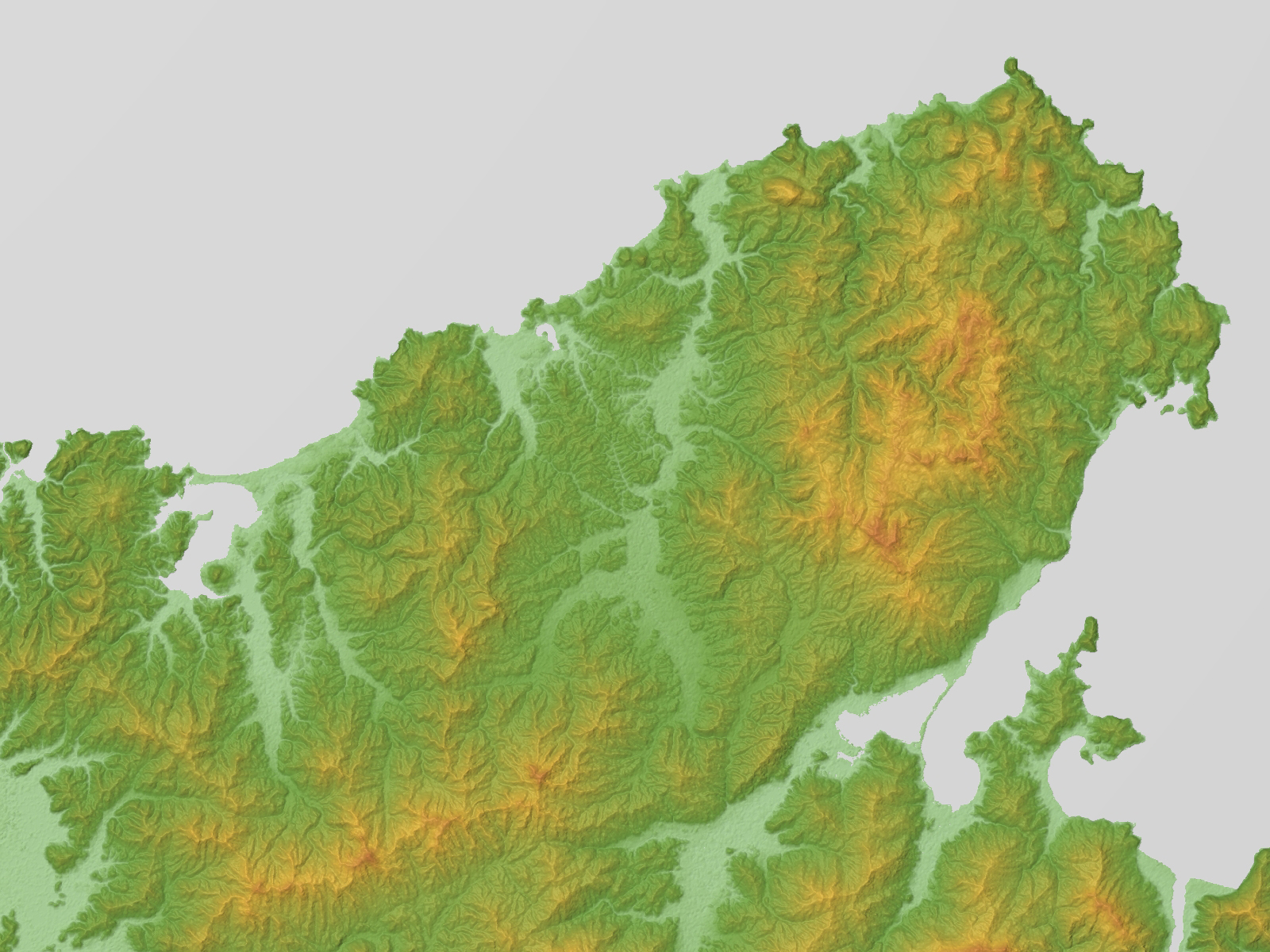 Tango Peninsula in Kyoto Prefecture, Honshu, Japan.